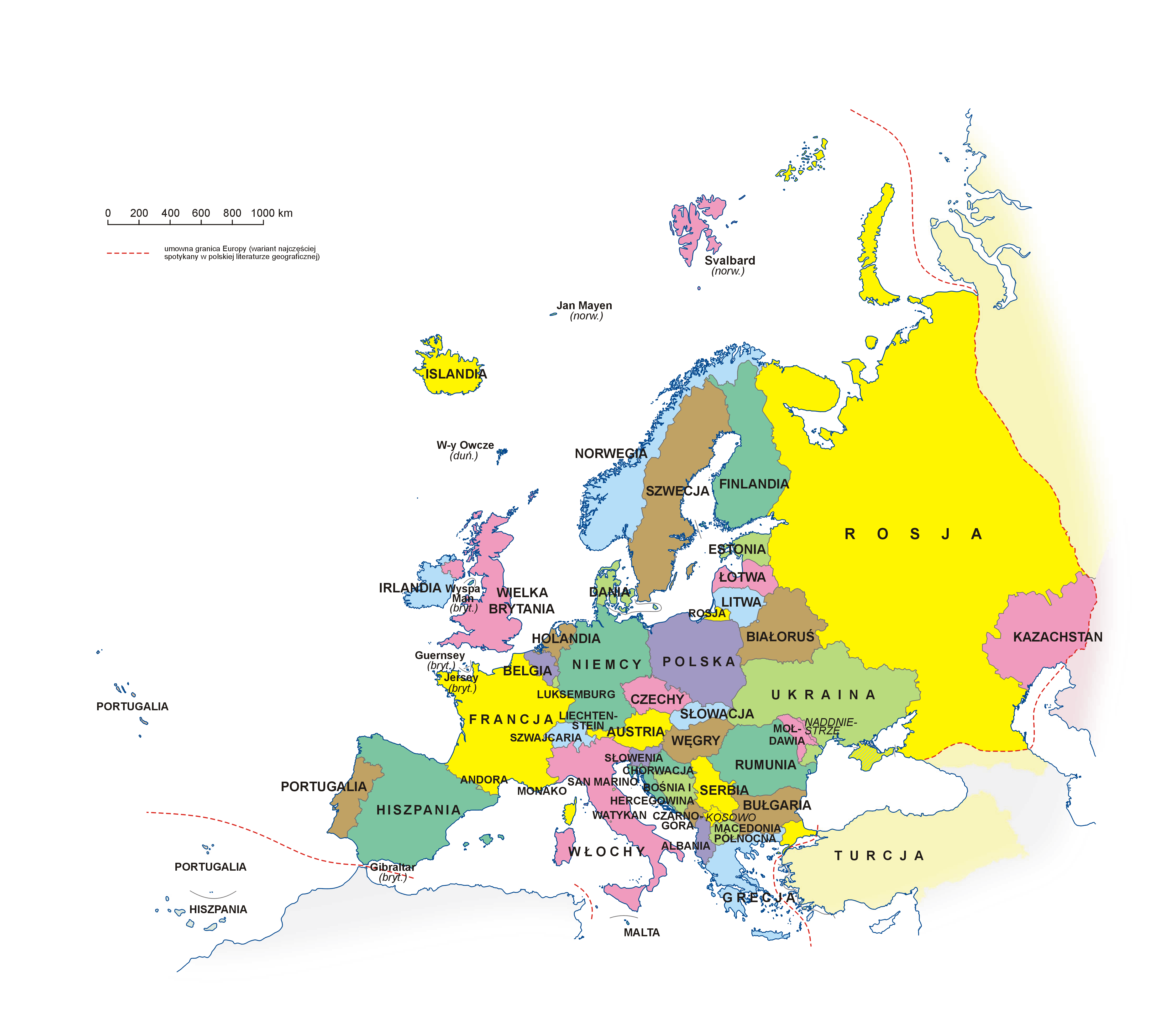 Political map of Europe in Polish